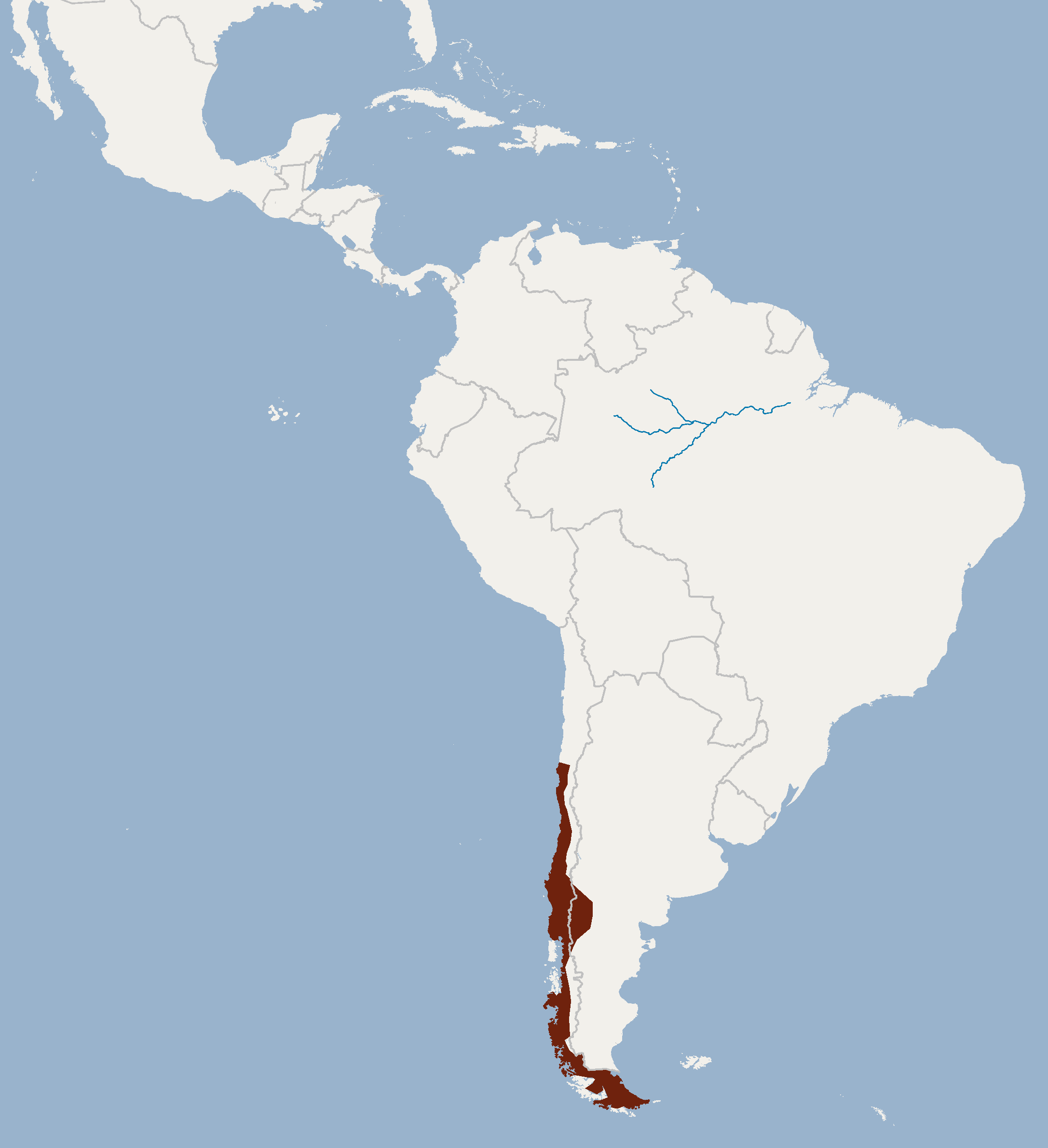 Geographical distribution of Myotis chiloensis according to maps.